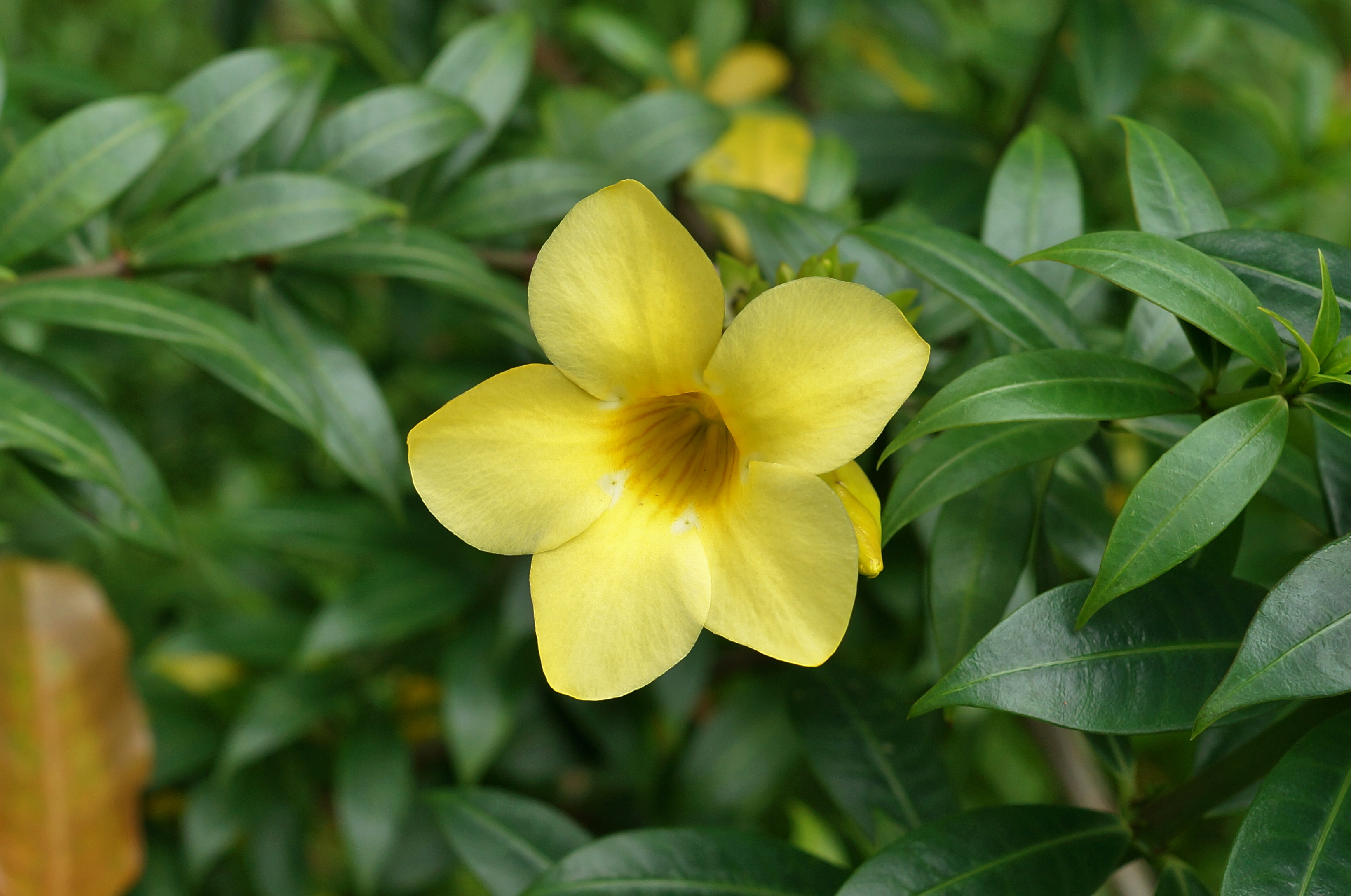 Golden Trumpet